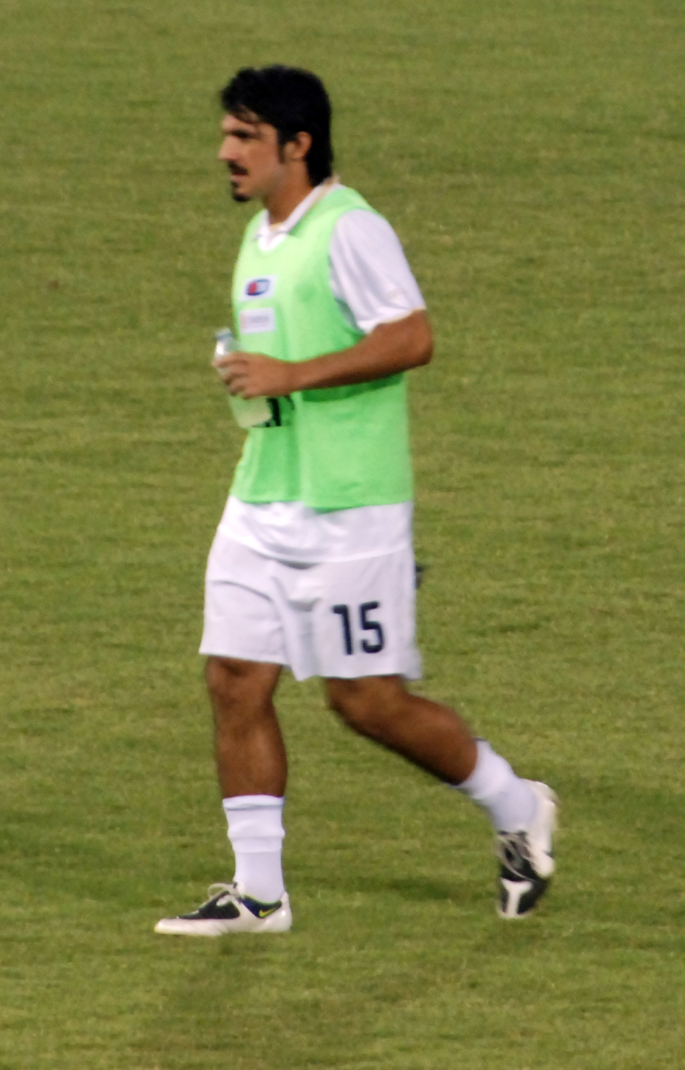 Gennaro Gattuso during Cyprus-Italy